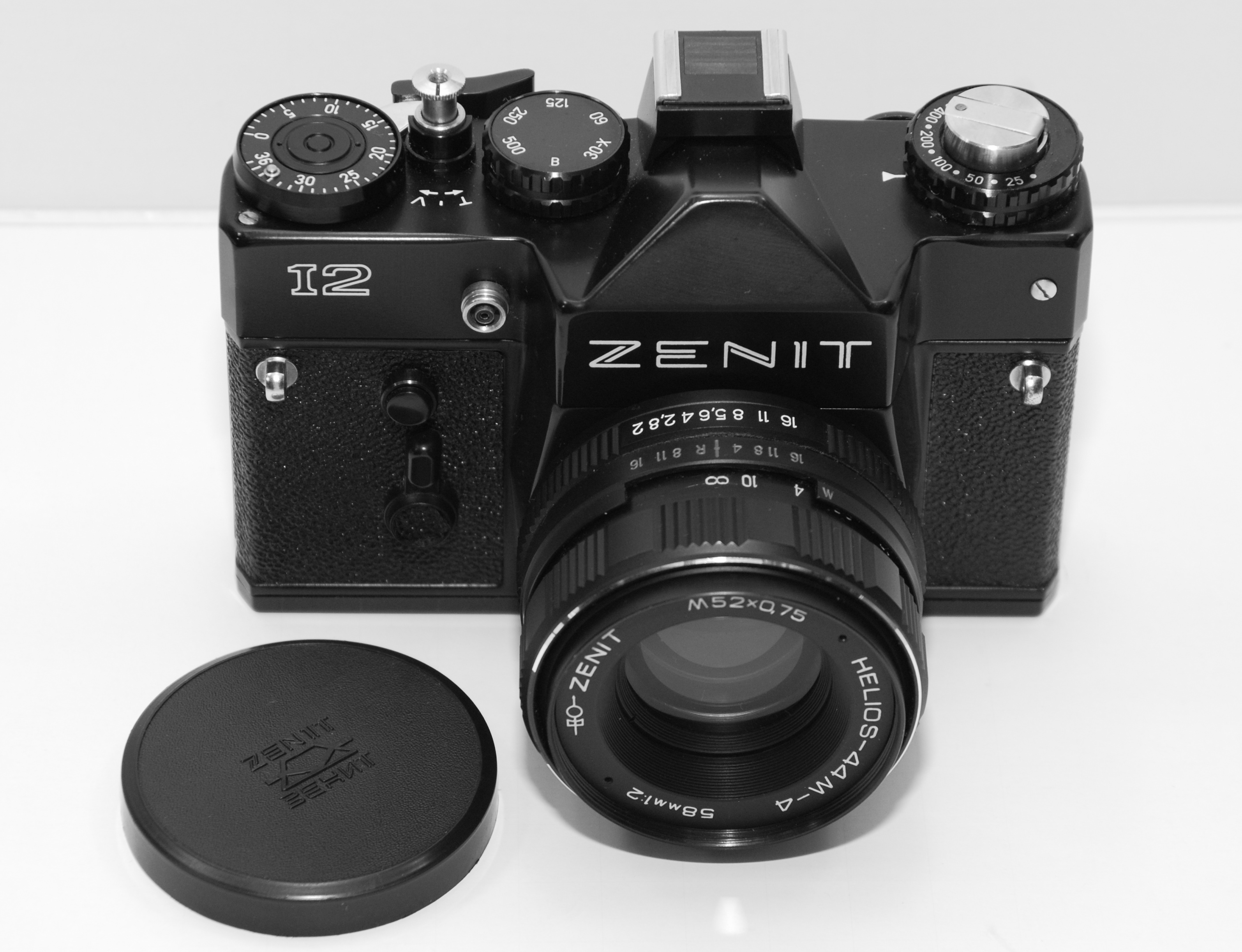 A Zenit 12 with a Helios 58mm f/2 lens (top view).